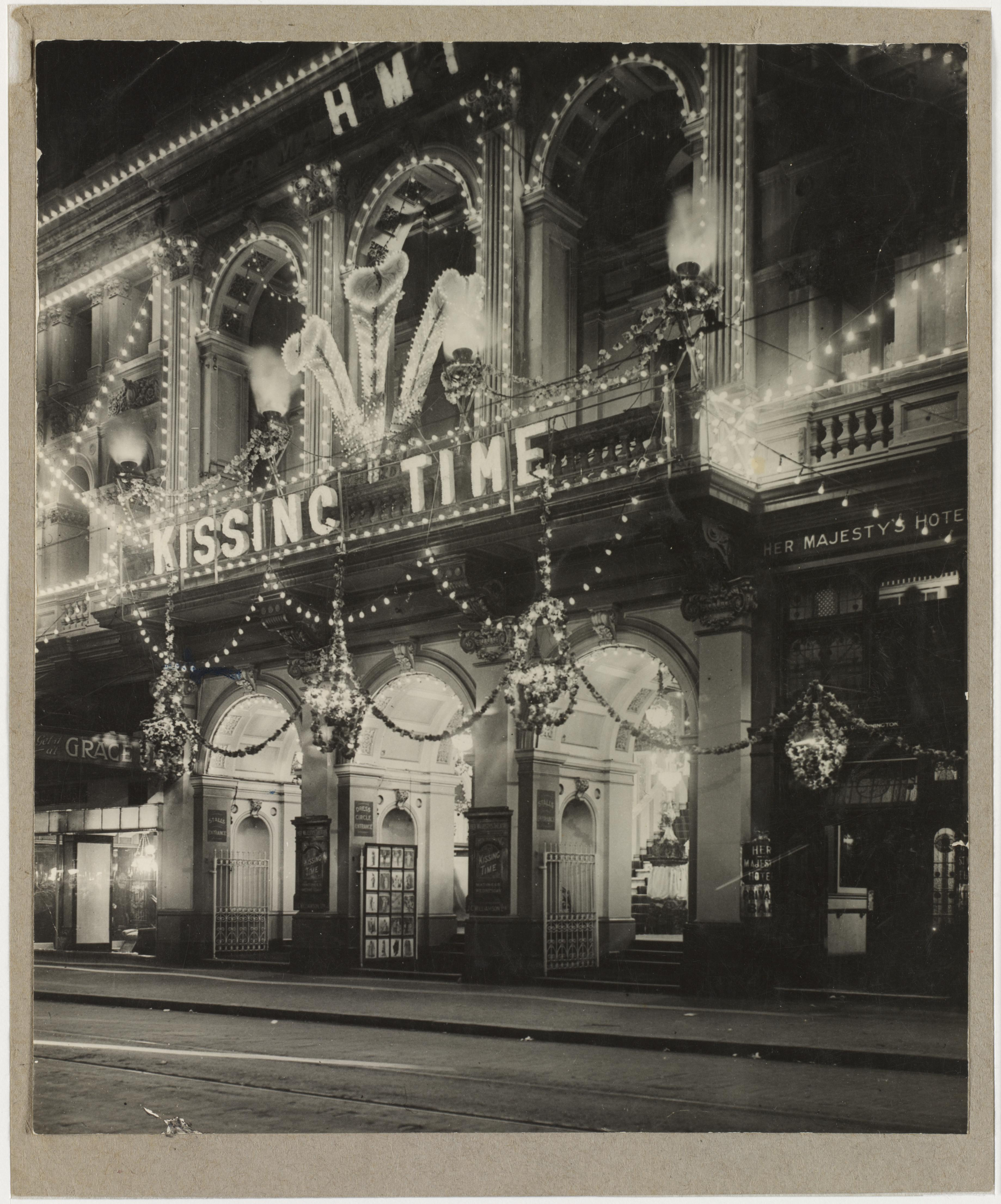 Format: Photograph Find more detailed information about this photograph: .au/item/itemDetailPaged.aspx?itemID=395313 From the collection of the State Library of New South Wales